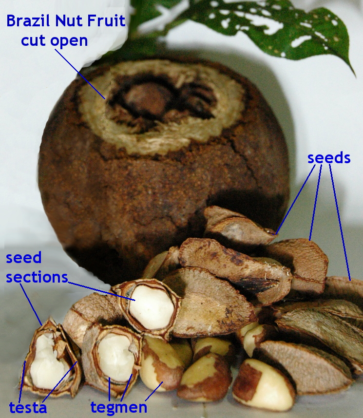 Copy of File:Bertholletia excelsa fruit and seeds.jpg, created by P. S. Sena, edited by User:RoRo. Brazil nut image to illustrate seed Tegmen & testa. The terminology of the terms is unstable See ref: Schmid, Rudolf. “On Cornerian and Other Terminology of Angiospermous and Gymnospermous Seed Coats: Historical Perspective and Terminological Recommendations.” Taxon, vol. 35, no. 3, 1986, pp. 476–491. JSTOR, Accessed 7 Apr. 2020.